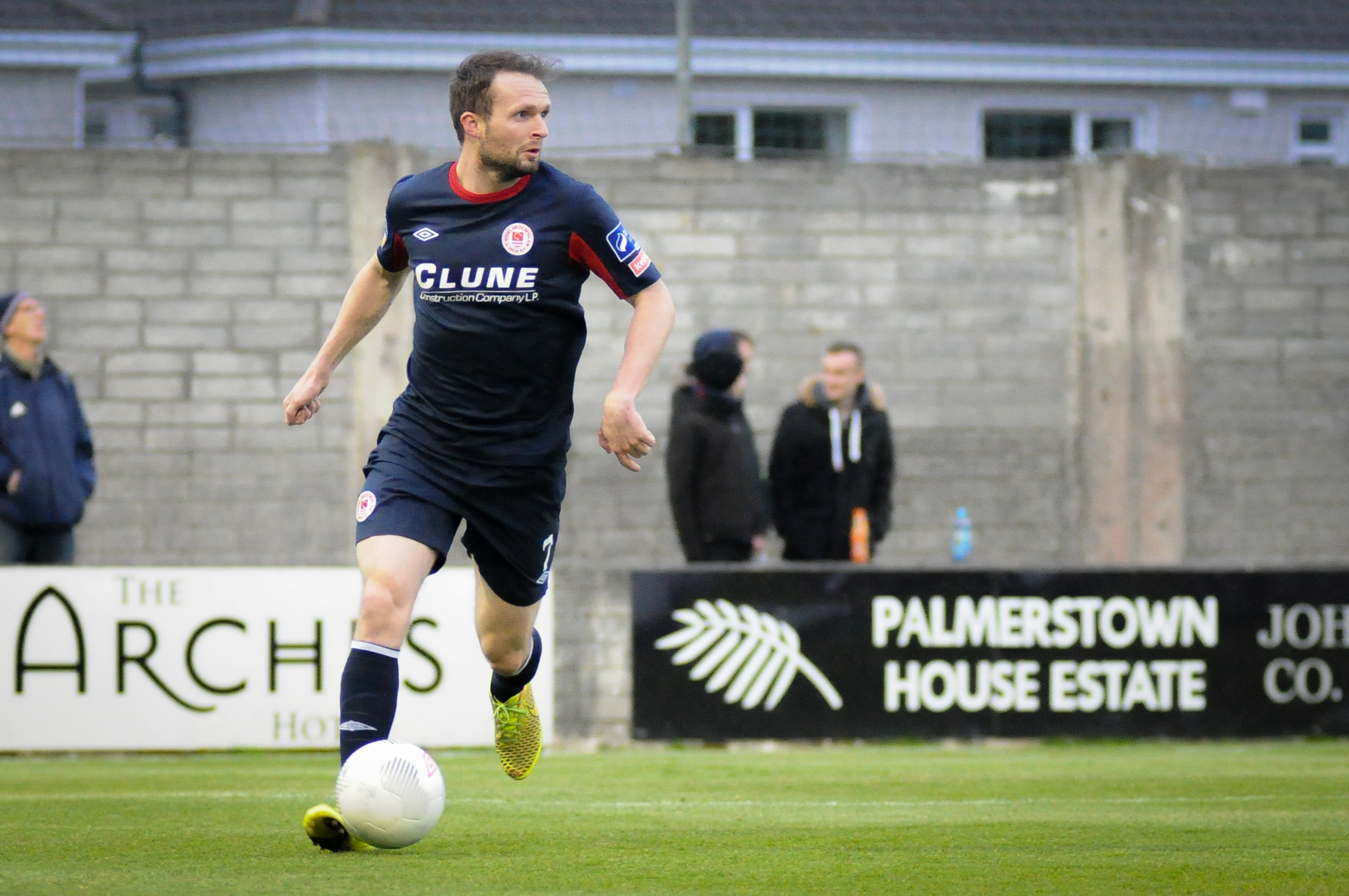 Conan Byrne playing for St Patrick's Athletic against Galway United